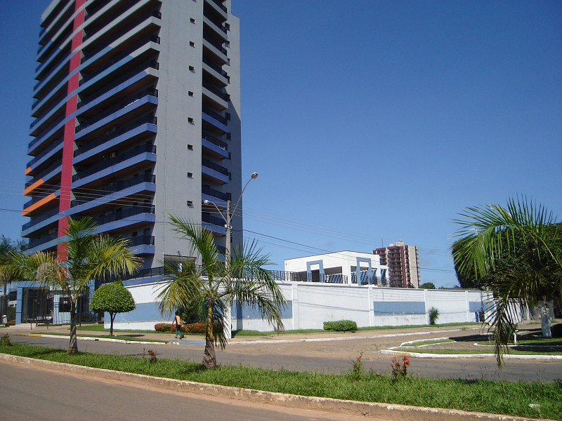 Buildings in Ji-Paraná, Rondônia State, Brazil.